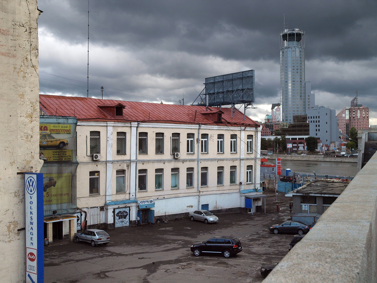 Narodnaya street, Moscow, looking from the bridge across the river